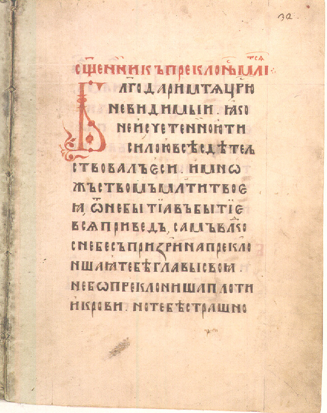 Vatican Isidore's Sluzebnik